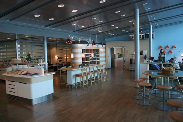 Scandinavian Airlines Airport Lounge at Helsinki-Vantaa Airport (HEL). Scandinavian interior style.